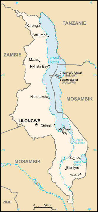 Map of Malawi with Czech description.